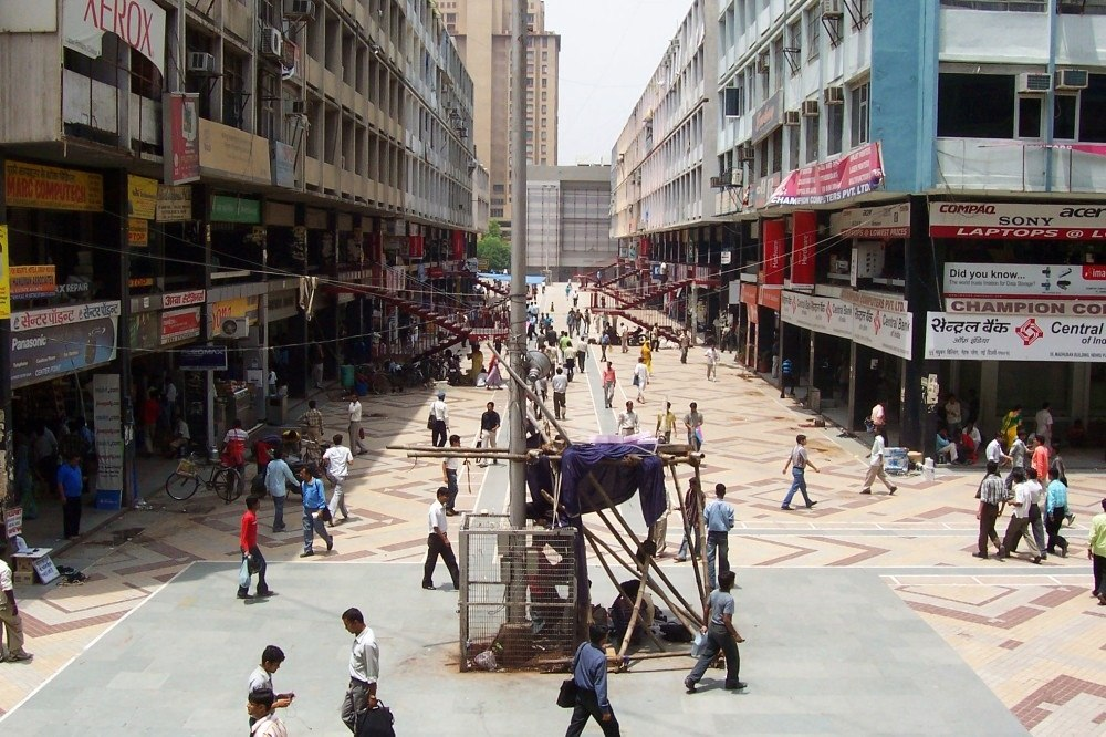 Nehru-place in Delhi India. Photo taken by uploader